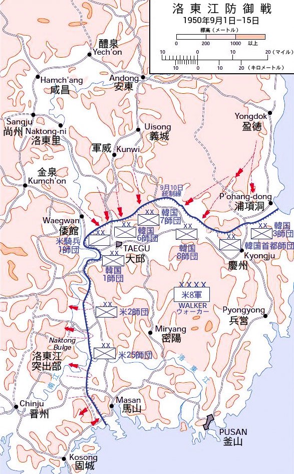 Map of the Naktong Defense lines, September 1950.Localization work of: File:Naktong Defense.jpg